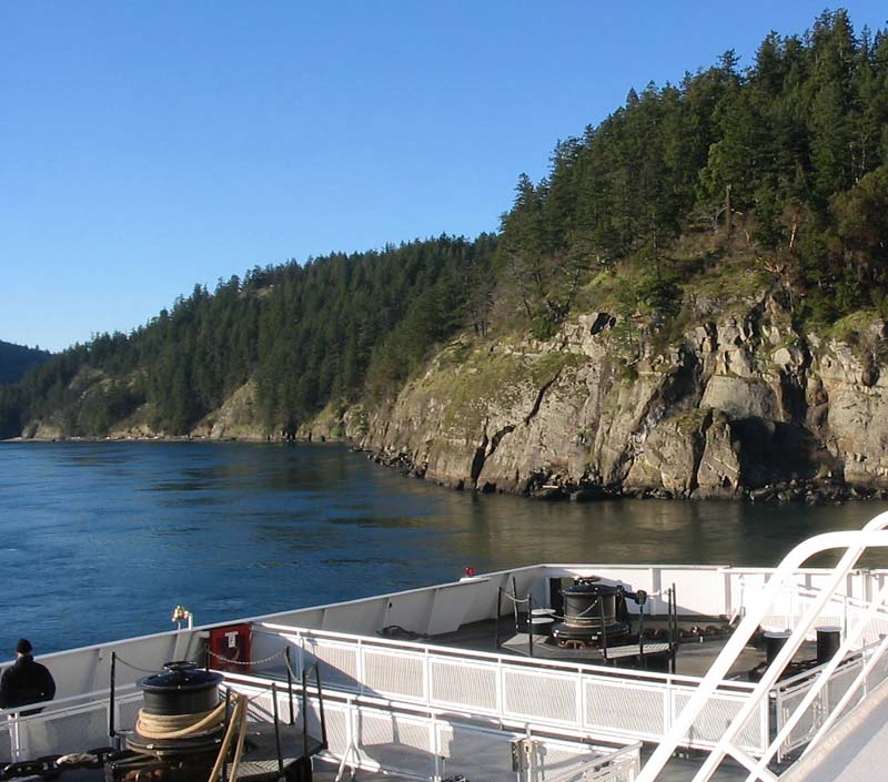 Active Pass, Vancouver Island BC, seen from the ferry deck